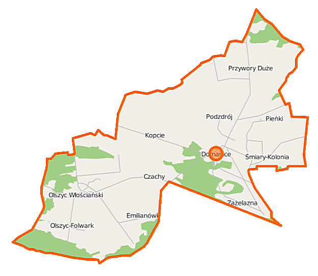 Map of Gmina Domanice, Poland This map of Domanice (gmina) was created from OpenStreetMap project data, collected by the community. This map may be incomplete, and may contain errors. Don't rely solely on it for navigation. Border coordinates52.088822.0609←↕→22.231951.9971